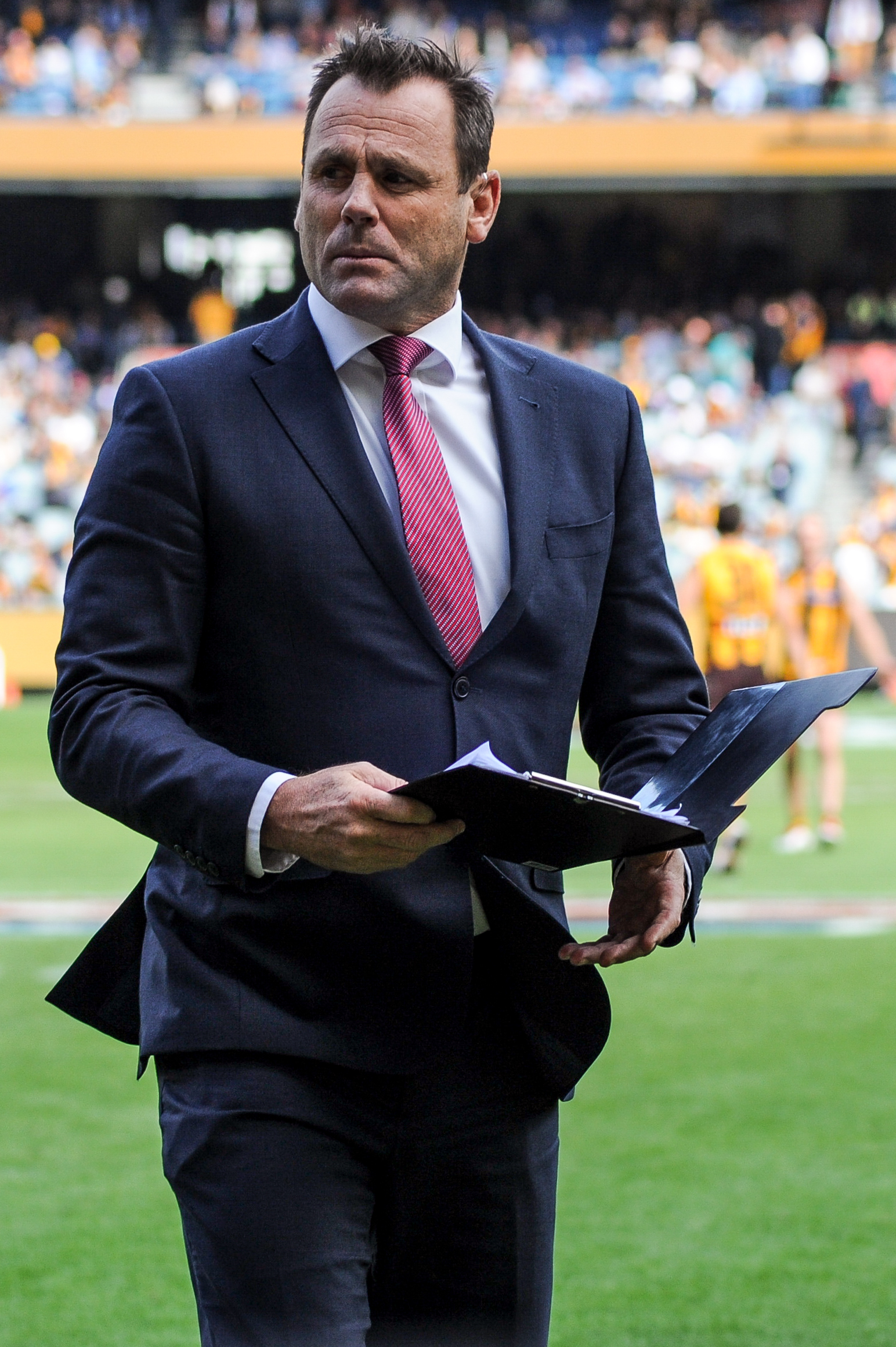 David King during the AFL round two match between Hawthorn and Adelaide on 1 April 2017 at the Melbourne Cricket Ground in Melbourne, Victoria.